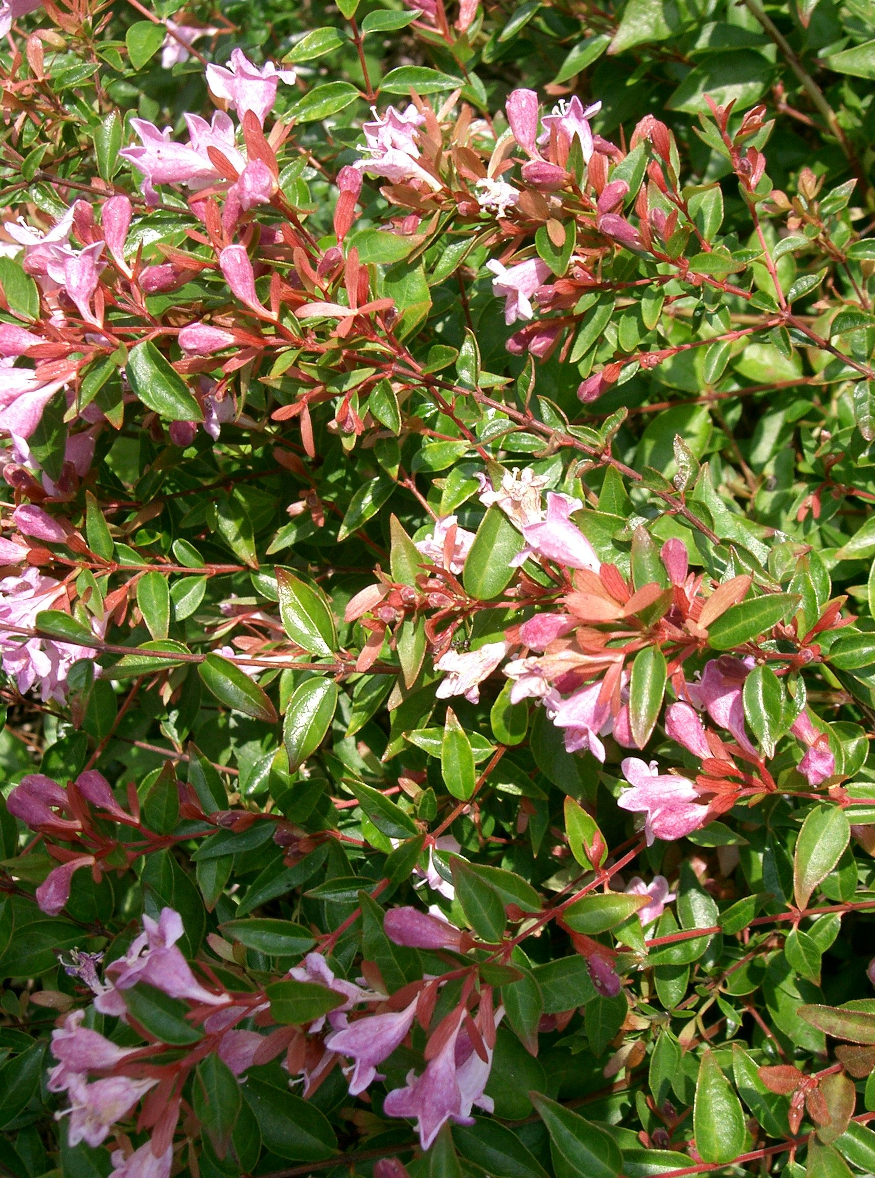 Abelia x grandiflora 'Edward Goucher'